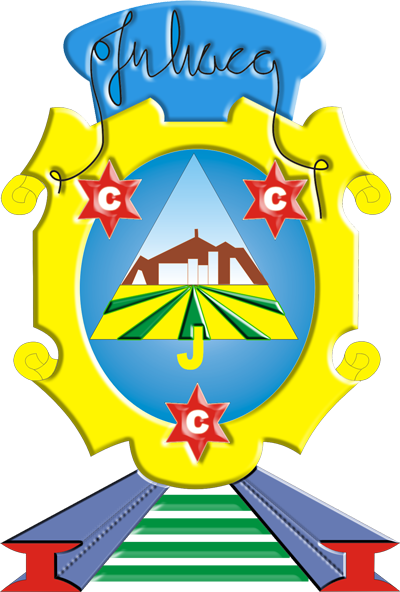 Juliaca City Simbol